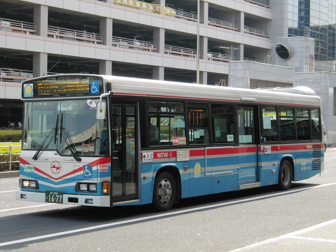 Haneda Keikyu bus Hino Rainbow HR (PK-HR７JPAE)